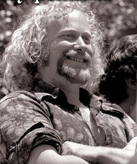 Photo of Stew Albert, based on "photo card" provided to Wikipedia by his widow under the terms of the terms of the GNU Free Documentation License, Version 1.2.